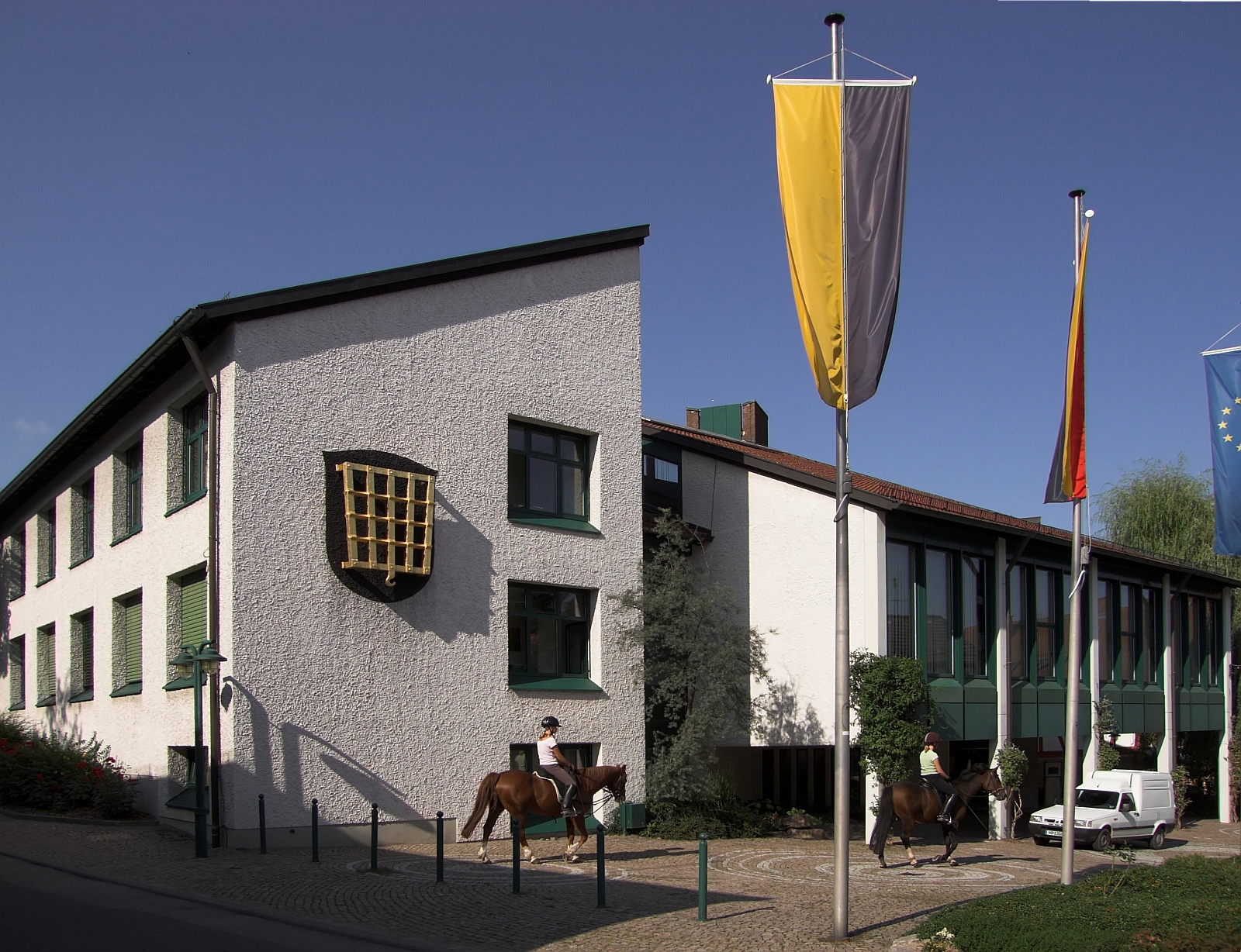 City Hall, Wald-Michelbach Kameradaten: Canon Powershot s70, for the rest see exif-data